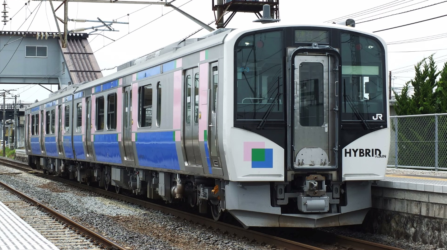 JR East HB-E210 series hybrid DMU set C-3 at Rikuzen-sanno Station on a Senseki-Tohoku Line service (5531D)